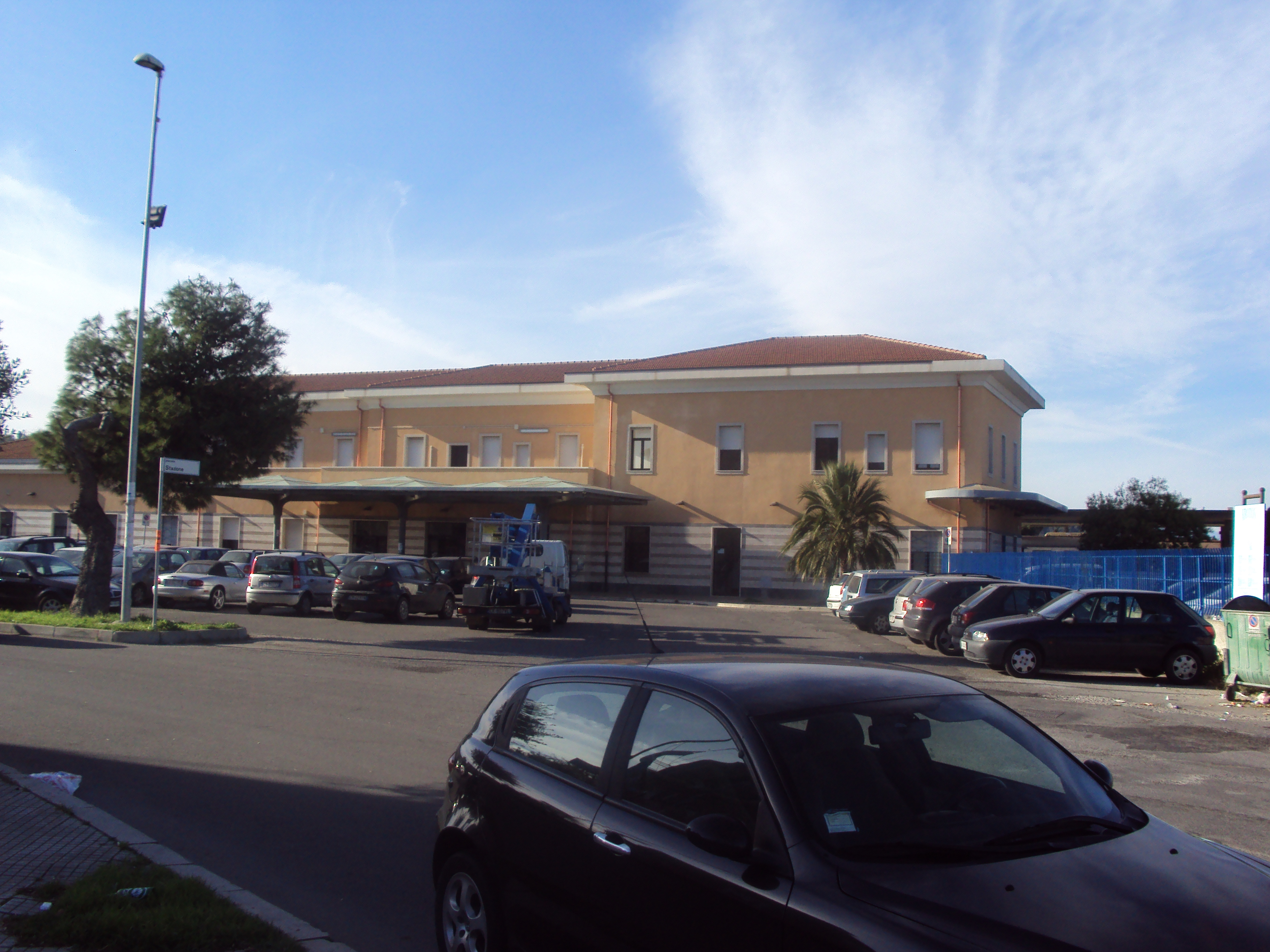 Crotone railway station